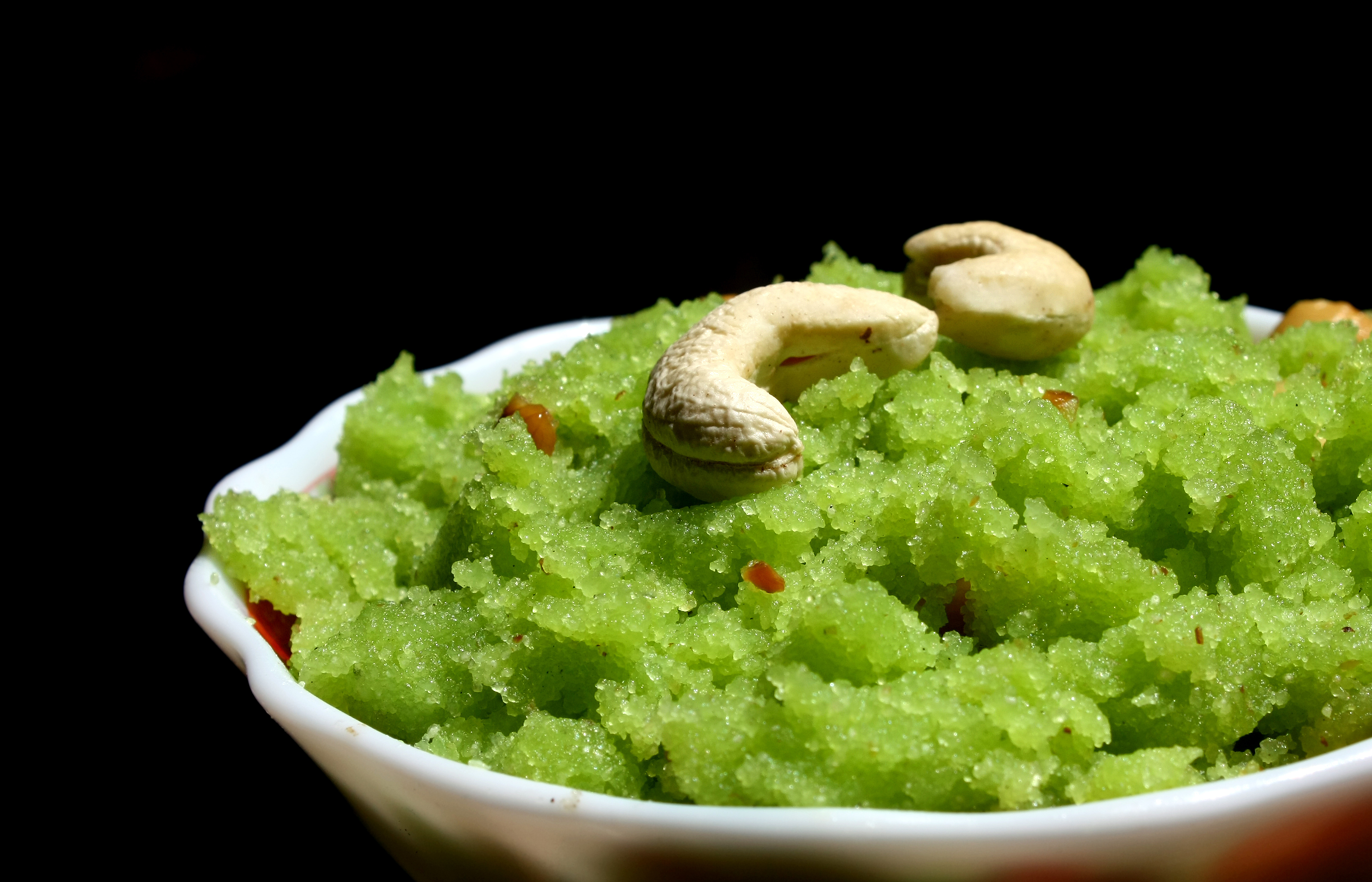 Kesari with cashew nut. Food color gives green to kesari. Commonly, it has orange or yellow color. Captured in Sri Lanka.